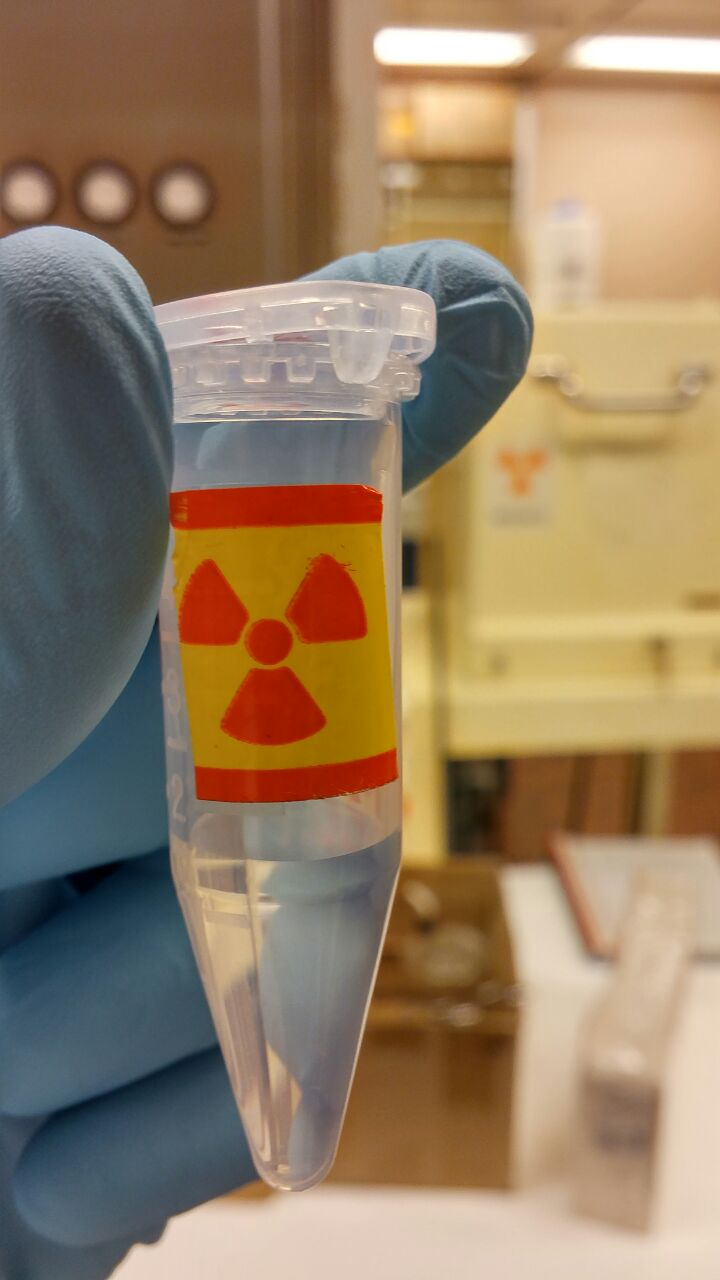 carbon-11-labelled PET radiotracer PHNO